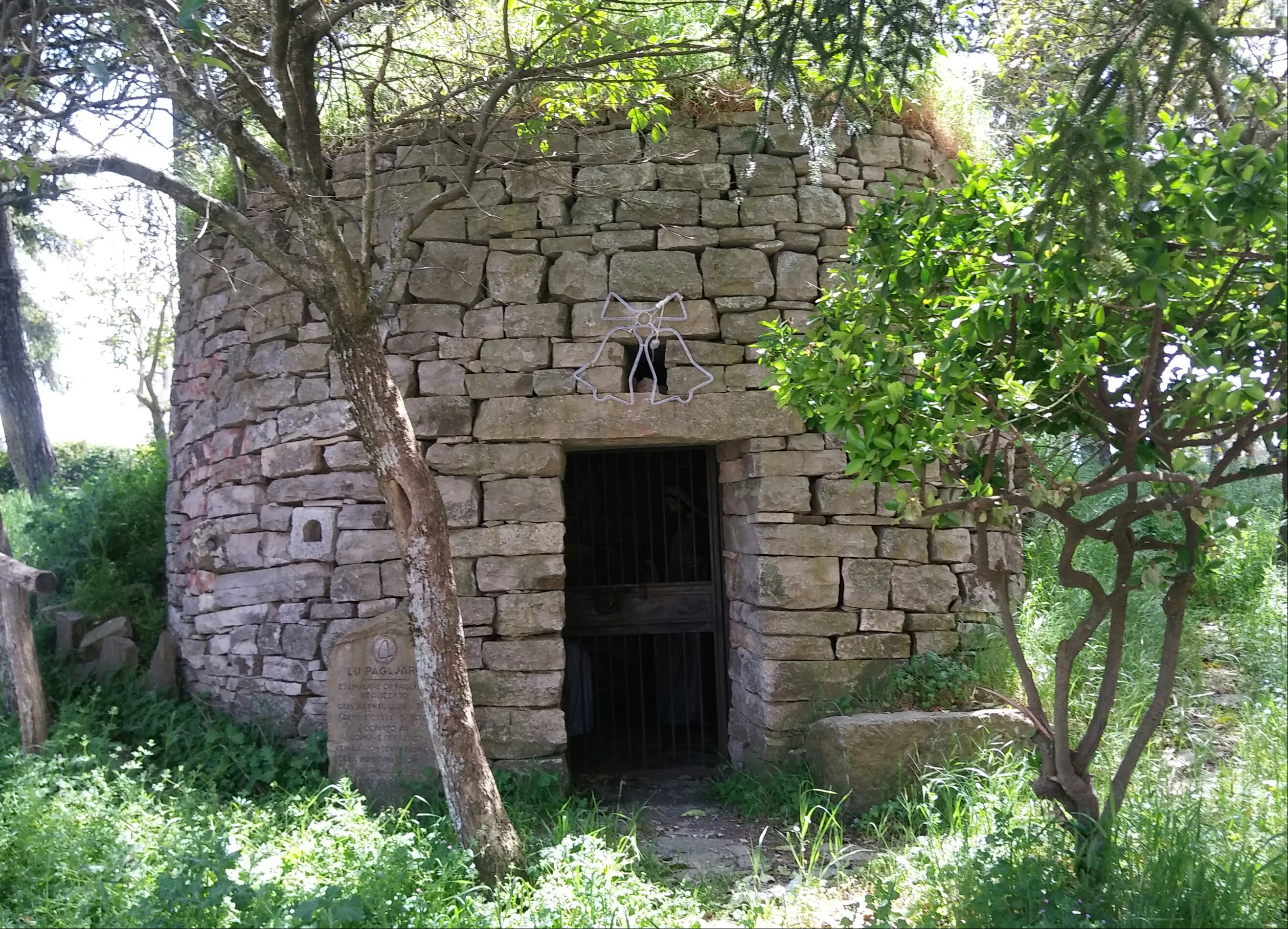 "Lu Pagliare", a shepherd hut in Faeto (Apulia), Italy